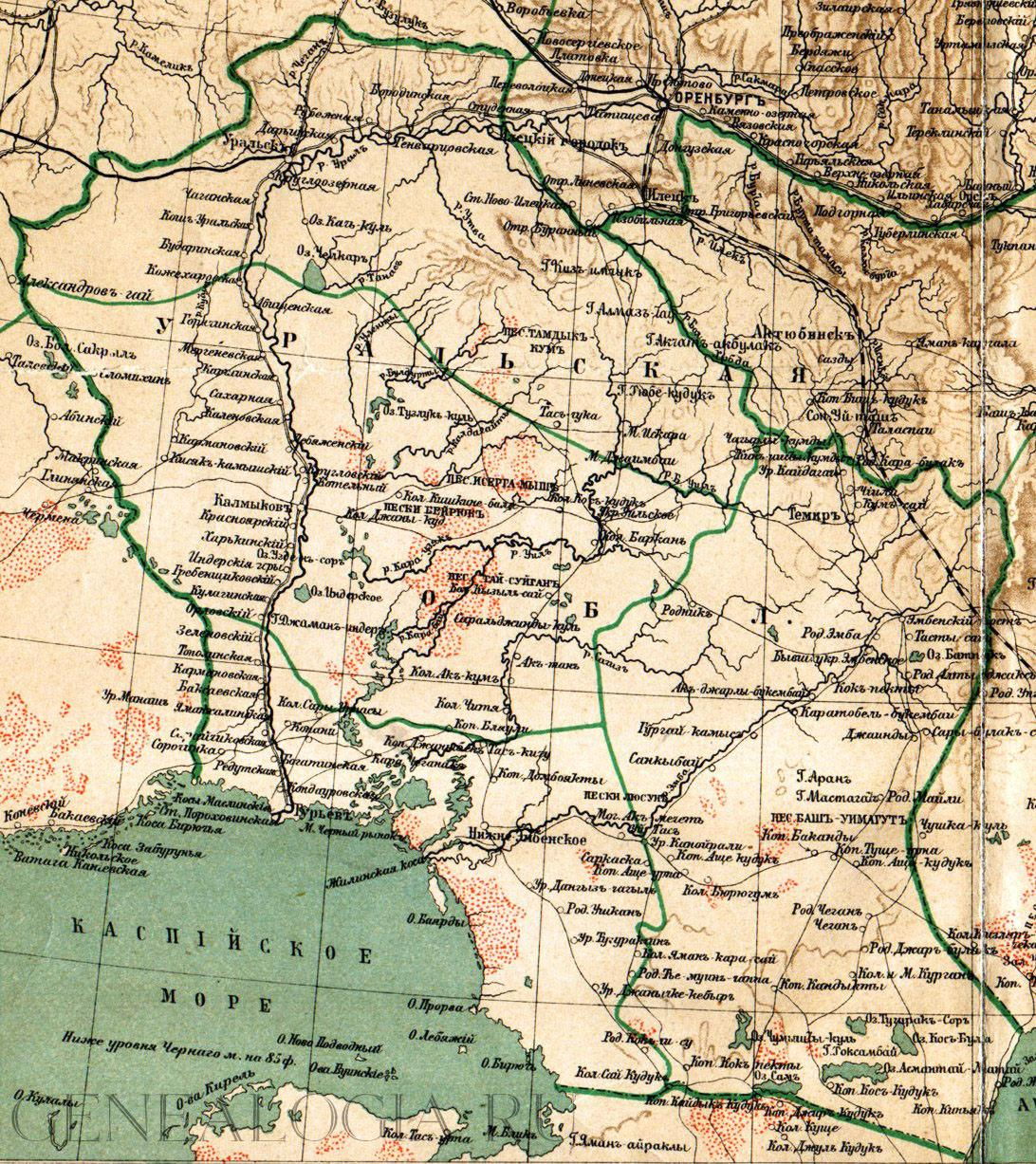 Map of Ural Oblast of Russian Empire from Brockhaus and Efron Encyclopedia